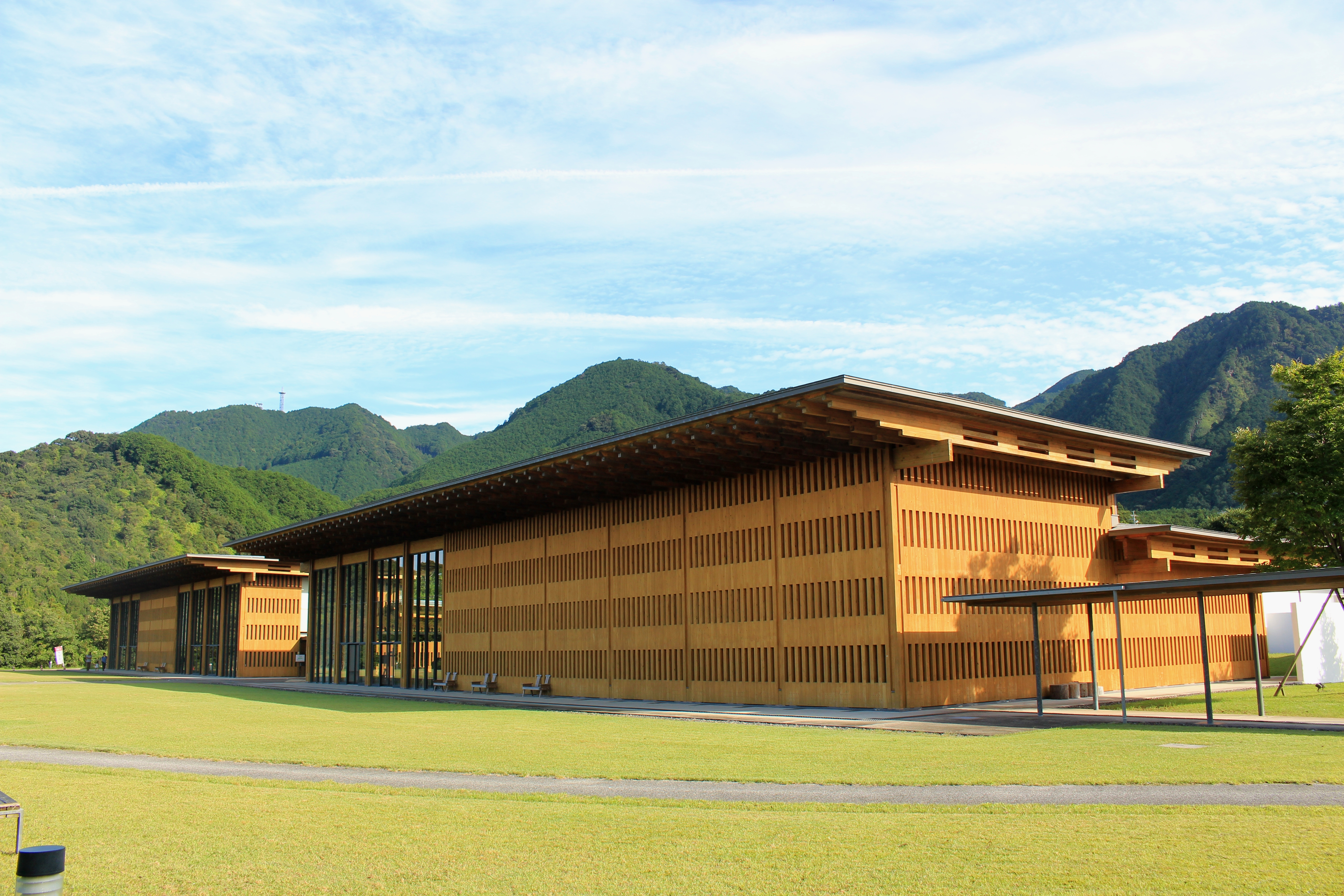 Mie Prefecture Kumano Kodo Center in Owase, Mie Prefecture, Japan.